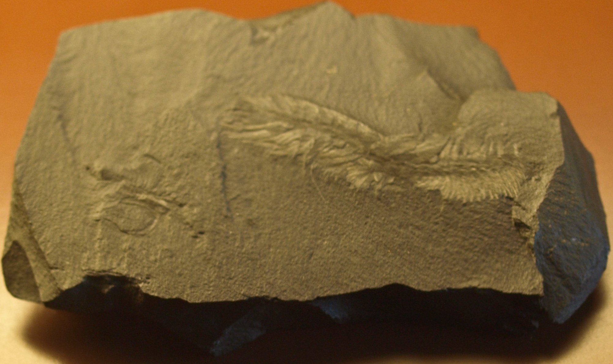 An example fossil of Canadia spinosa on display at the Naturhistorisches Museum, Vienna.